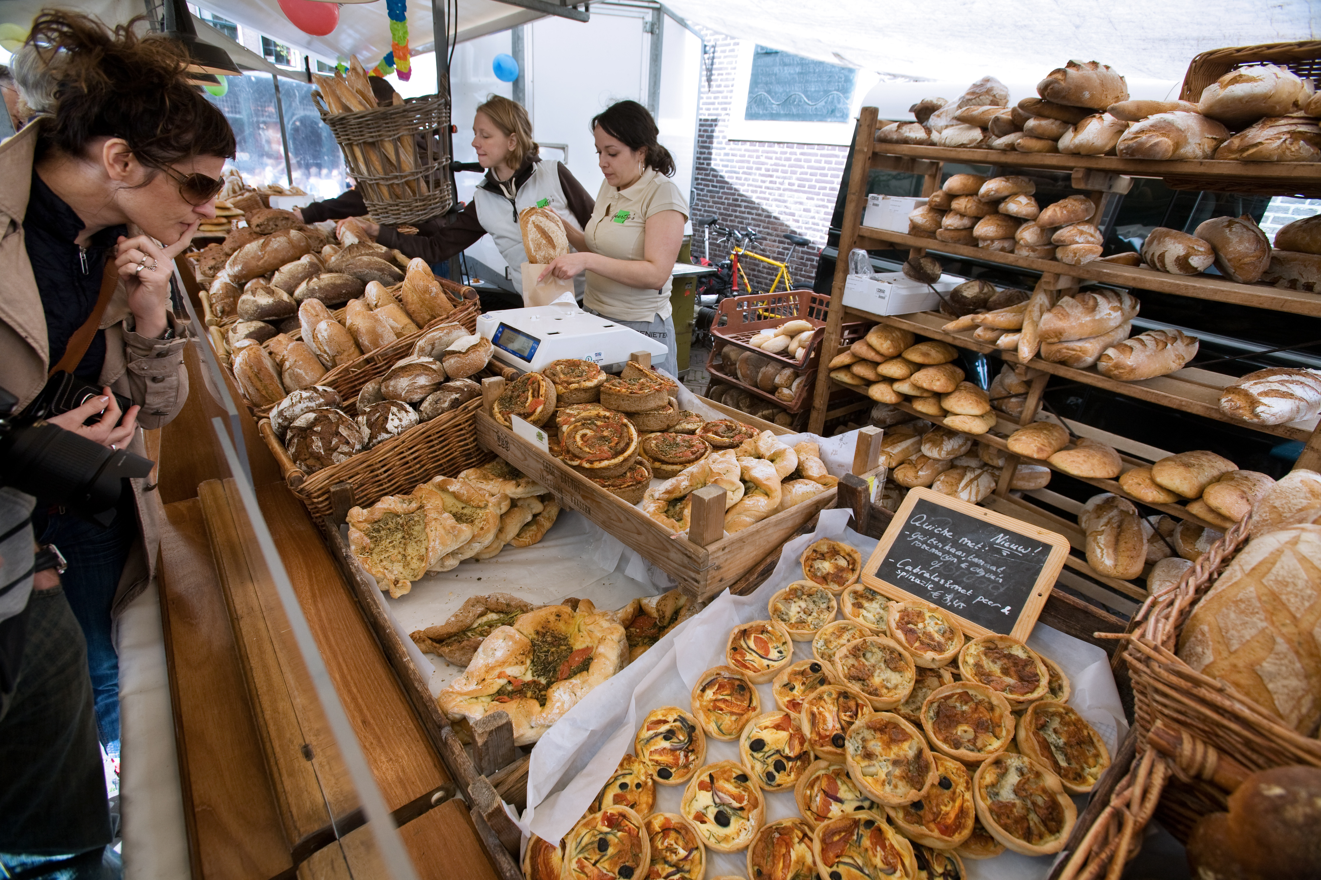 Sunday fair bakery. Amsterdam, The Netherlands